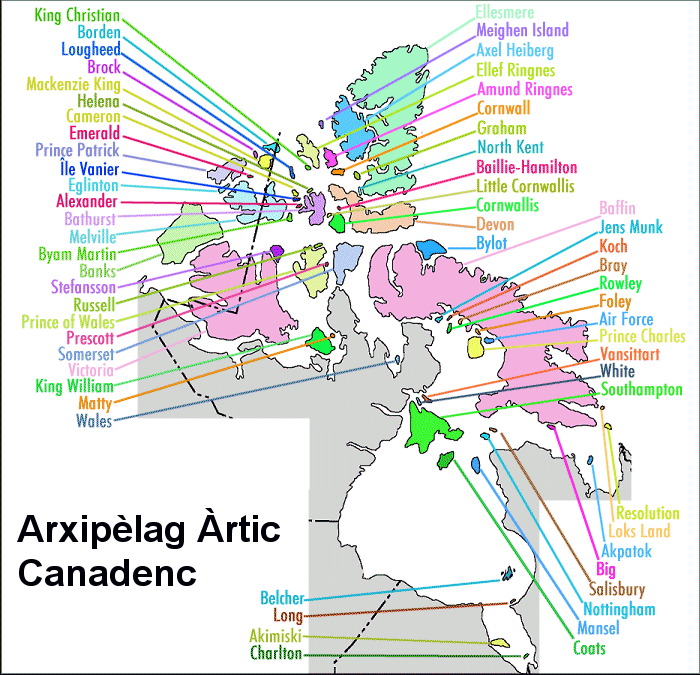 Map of the islands in the Canadian Arctic Archipelago